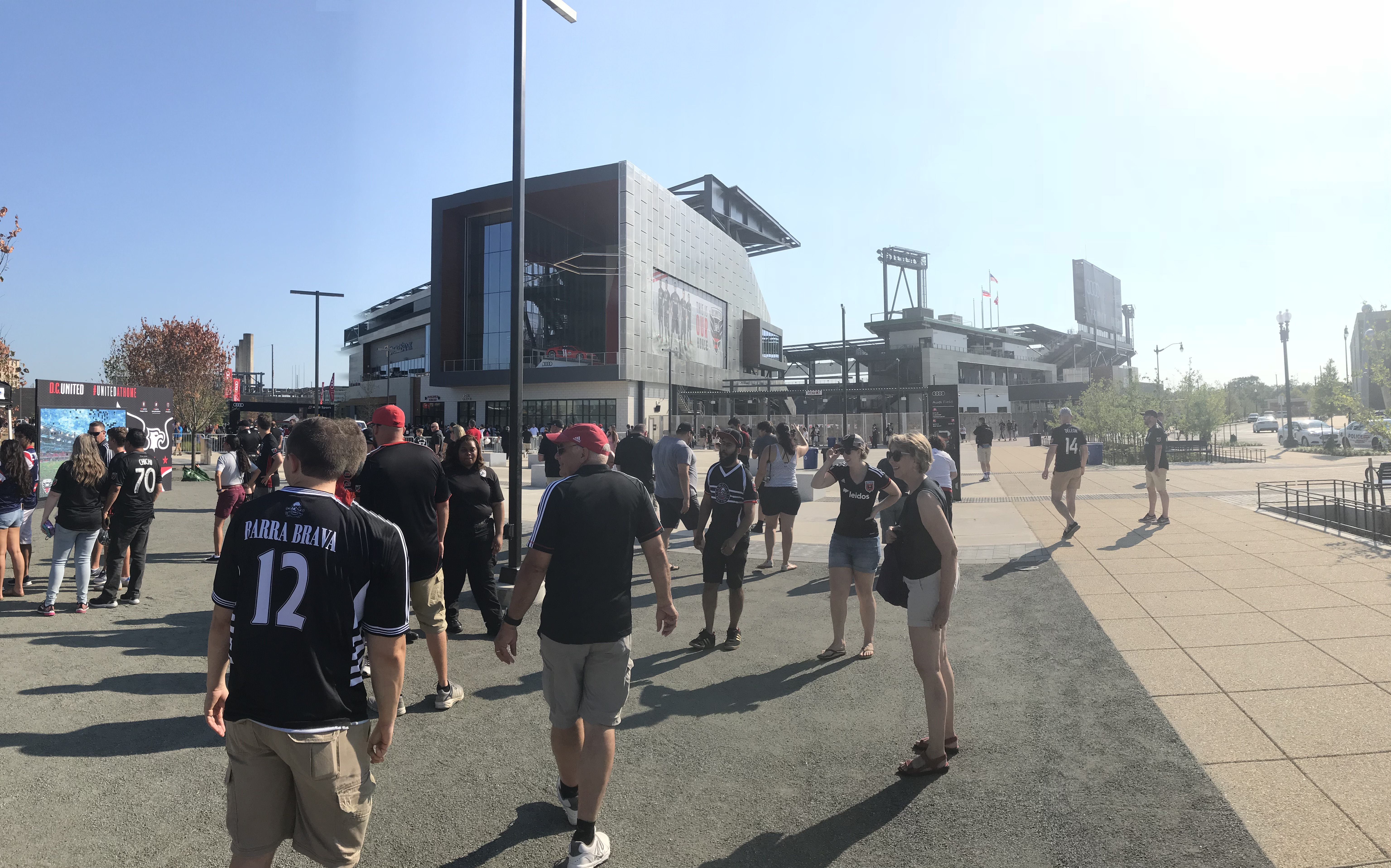 The entrance and exterior of Audi Field in Washington, DC.